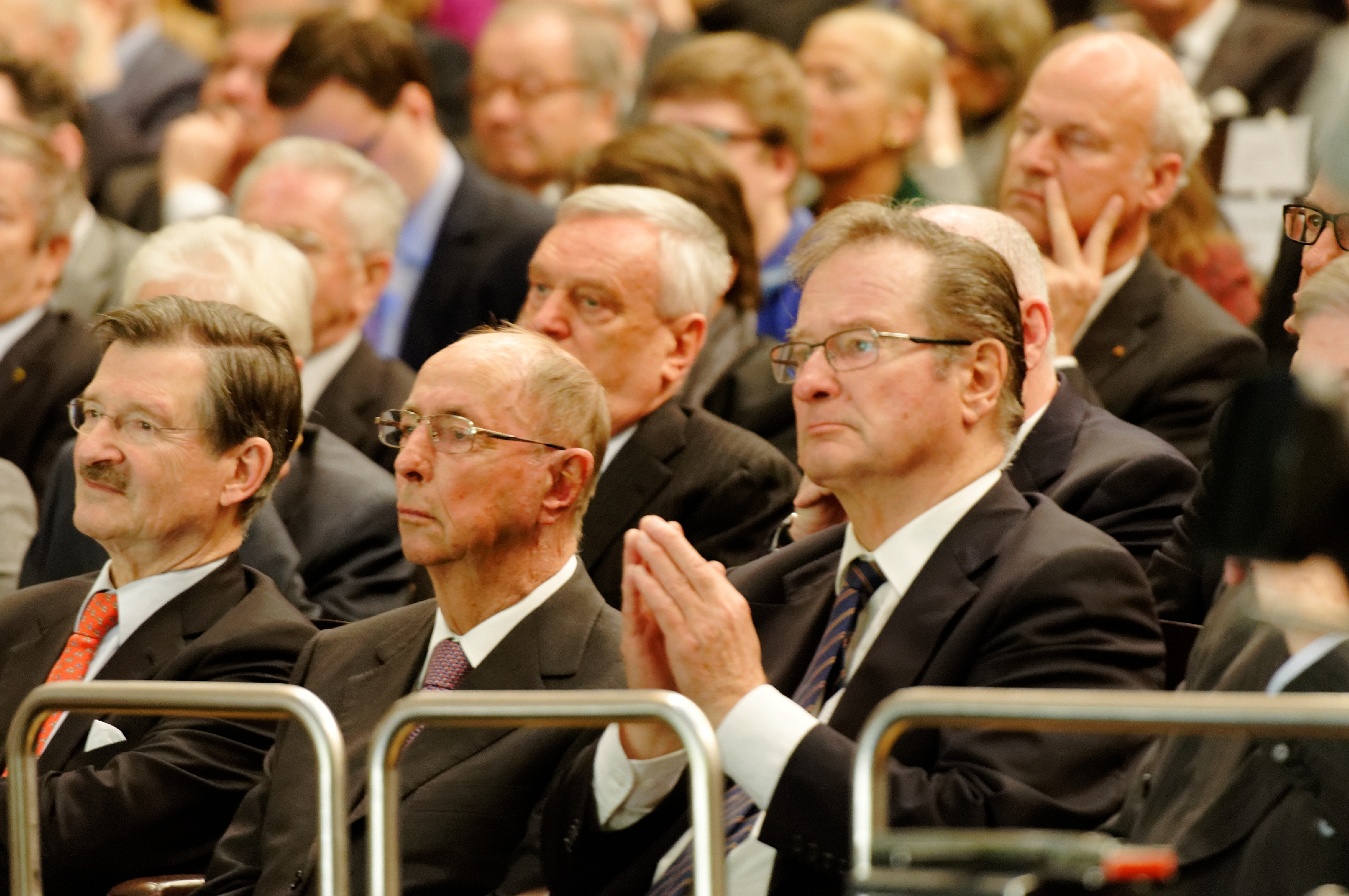 Series: Liberals' Epiphany rally hosted by the FDP Baden-Württemberg in the opera house of Stuttgart on January 6, 2015